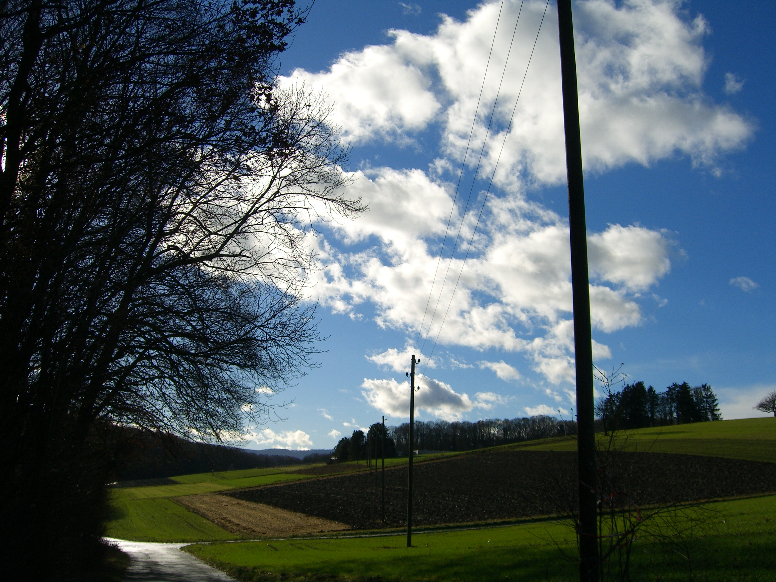 Countryside between Allschwil and Schönenbuch in Basel-Land, Switzerland